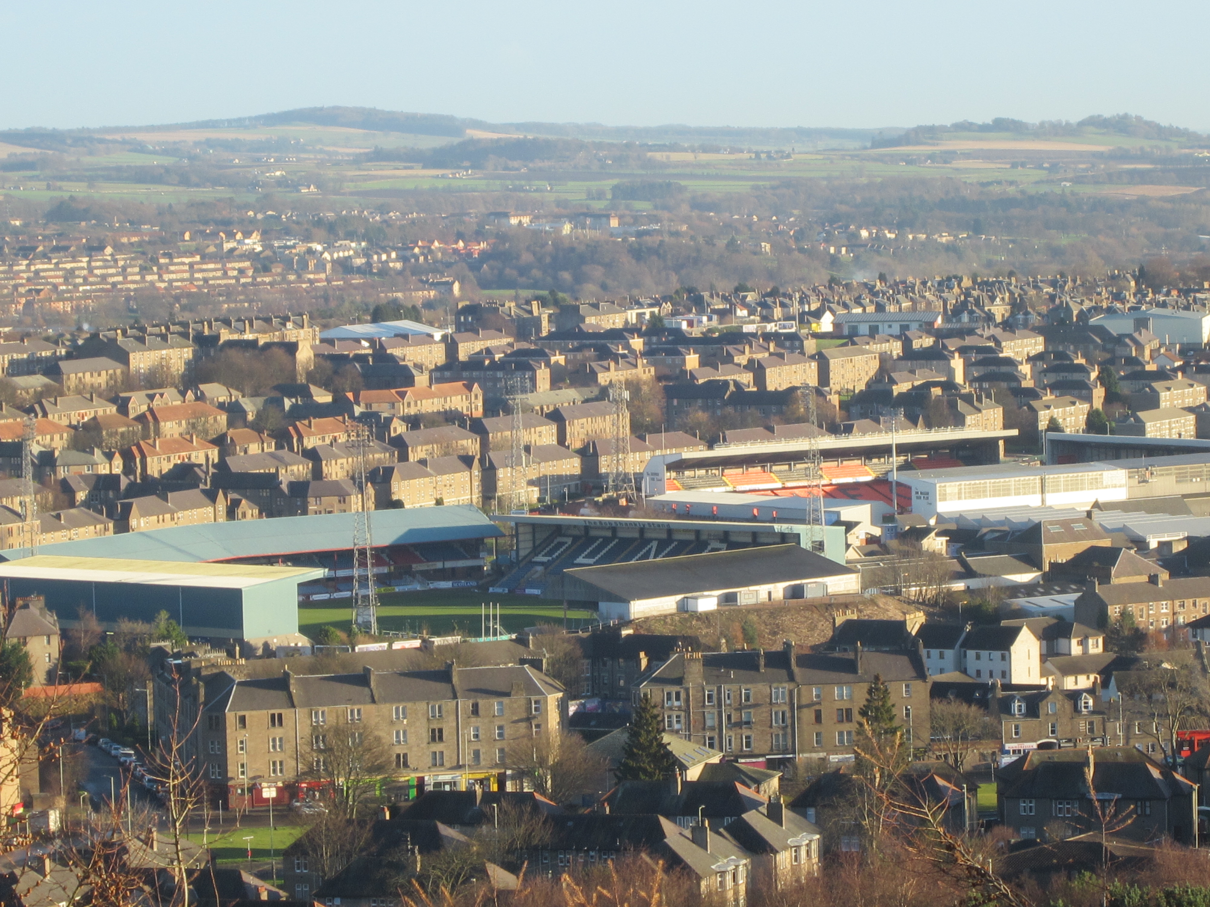 The two football stadiums in Dundee, viewed from the volcanic peak of Dundee Law. Left: Dens Park, home of Dundee FC. Right: Tannadice Park, home of Dundee United.